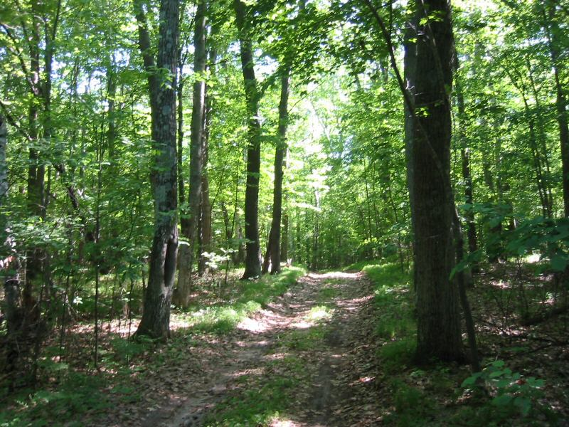 A dirt road leading to a cabin north of Brainerd, Minnesota.